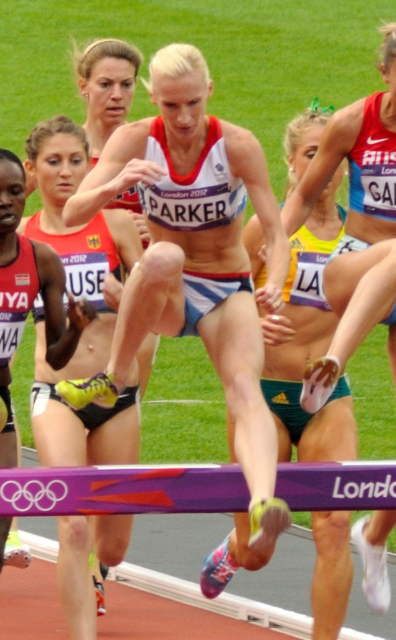 London 2012 Womens 3000m Steeplechase, Barbara Parker